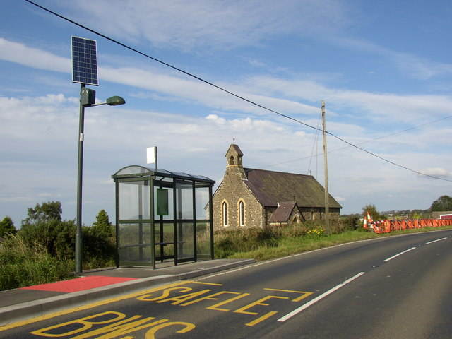 Bus stop and St Mark's parish church, Llandissiliogogo, Ceredigion, seen from the southwest. The church may now be disused, as the graveyard has been dug up. The bus stop is lit by a solar powered light.